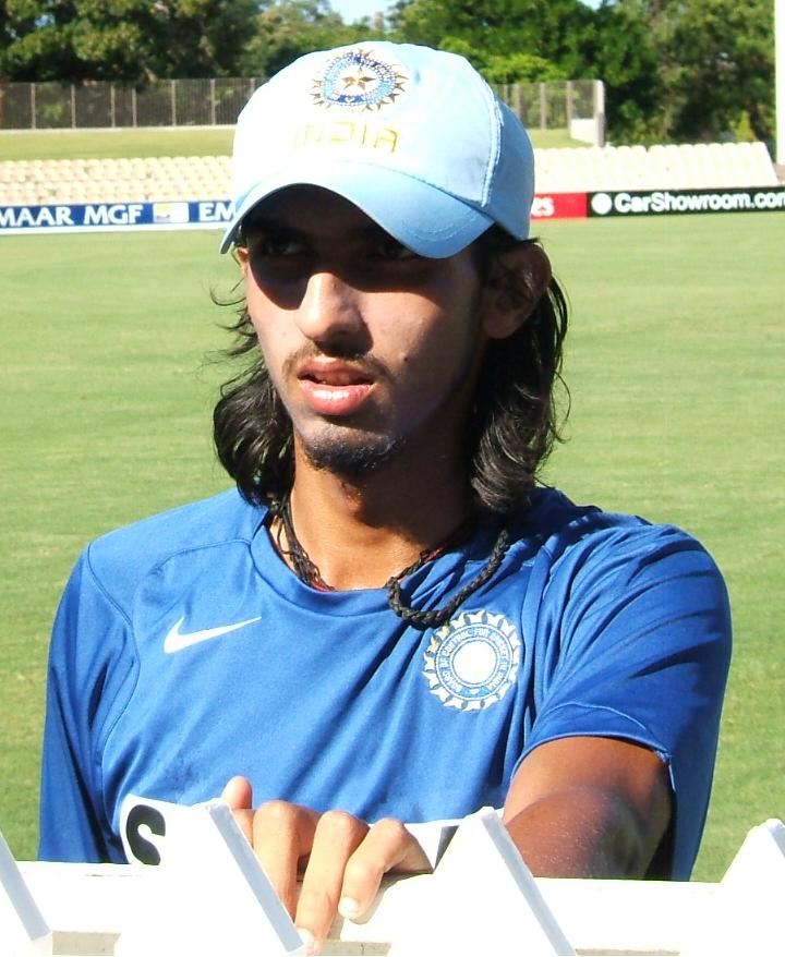 Ishant Sharma at Adelaide Oval